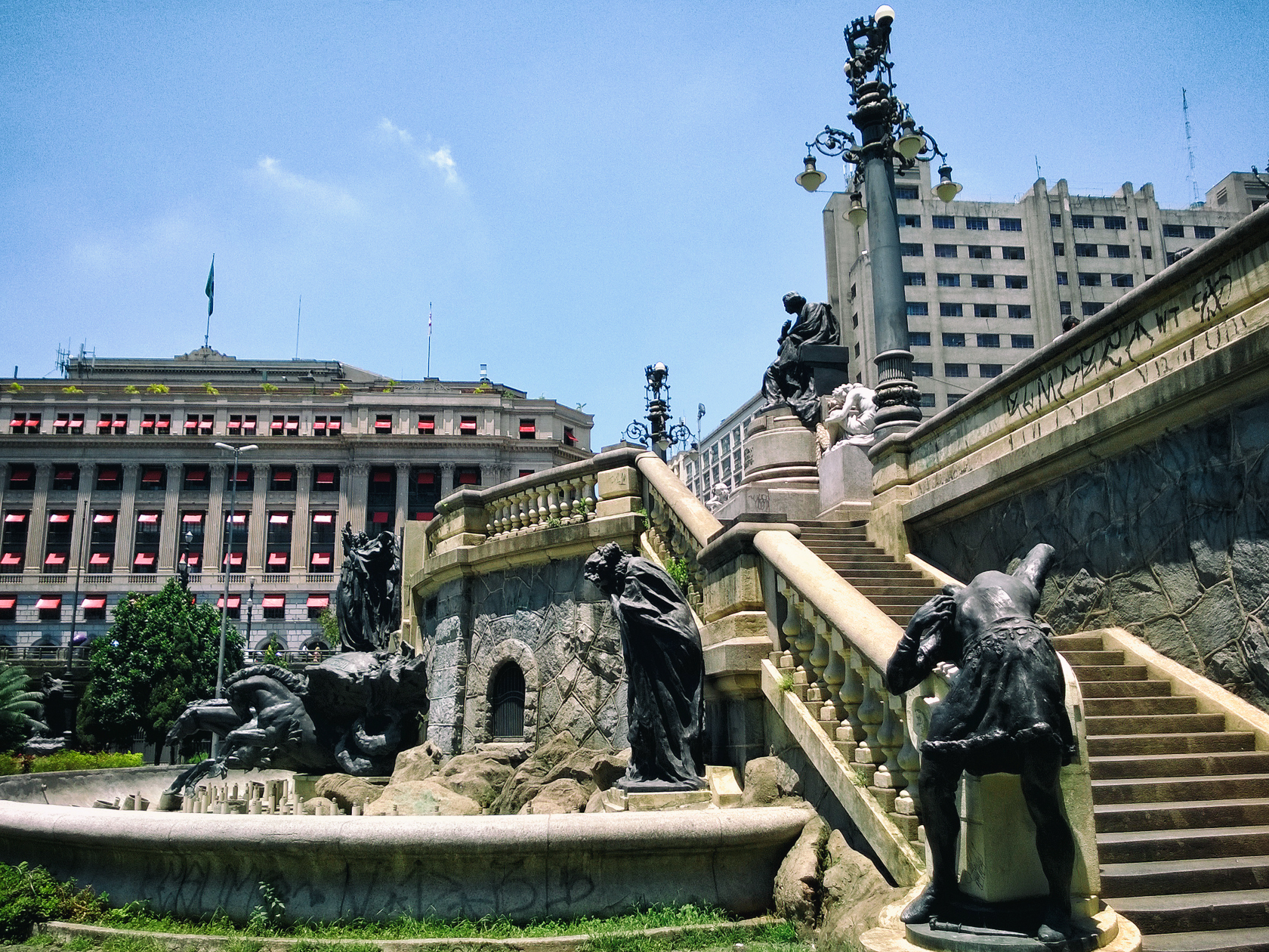 Downtown Sao Paulo, Brazil.